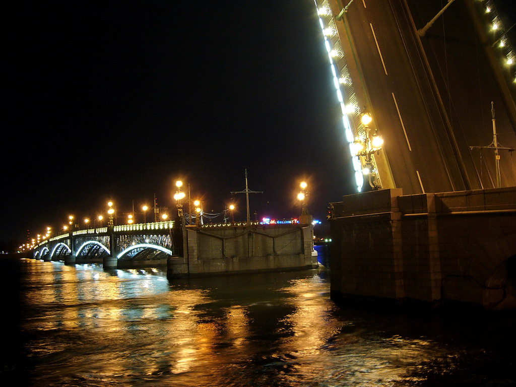 Trinity Bridge drawn at night, photograph by Evgeny Gerashchenko.